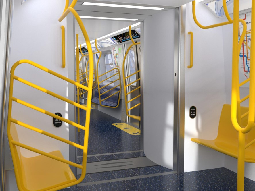 MTA New York City Transit on Feb. 24, 2020 announced plans to develop and purchase up to 949 new subway cars with an open-gangway configuration, designed for the numbered lines, that would increase passenger flow to allow customers to move freely between cars, and have the potential to improve dwell times at stations and increase capacity.